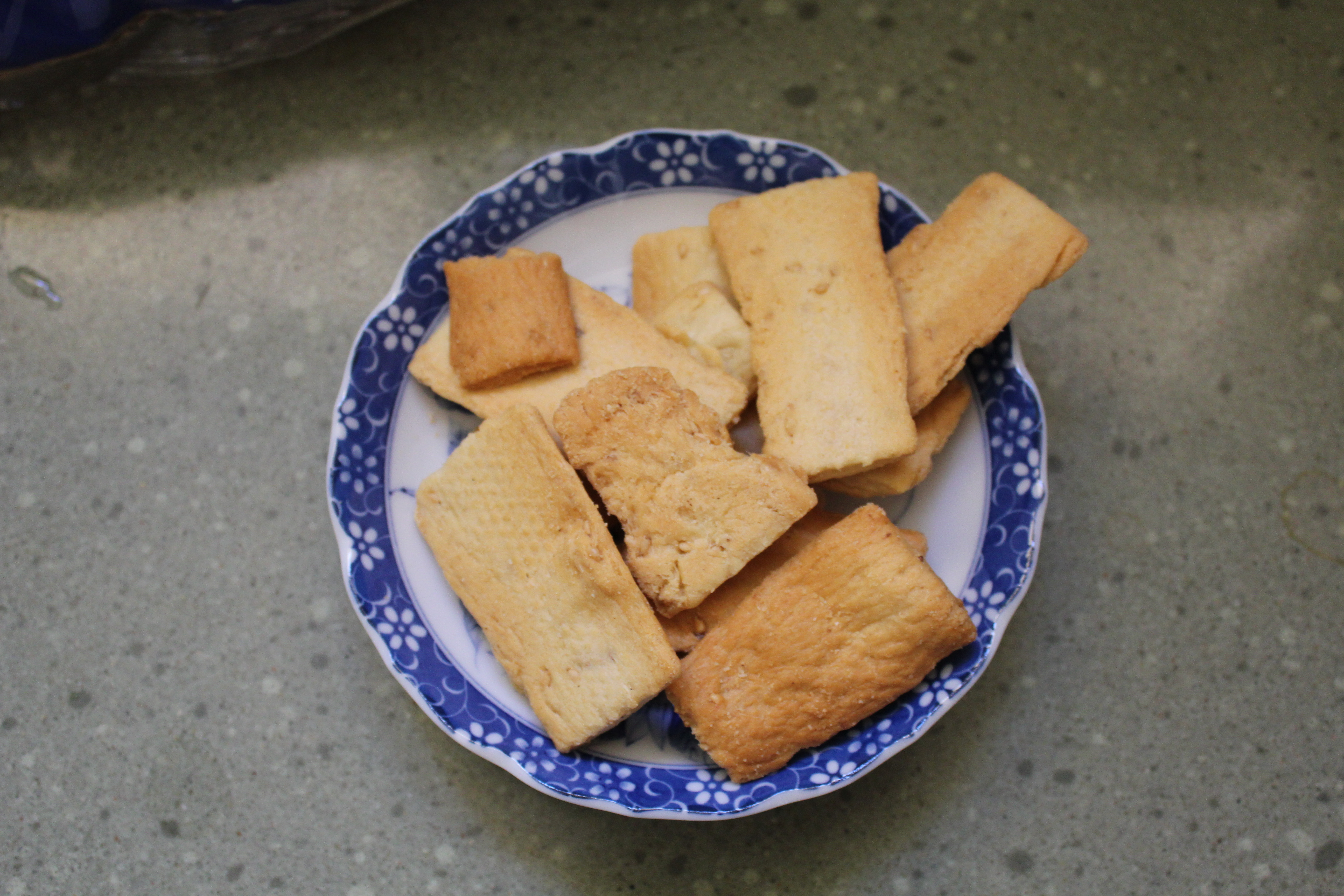 Regañas, Spanish traditional food